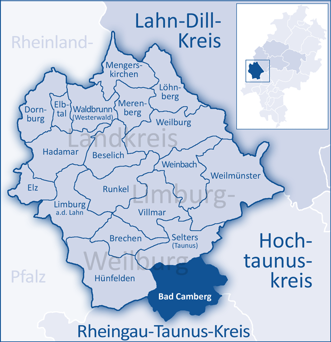 The map shows a district in the area of Limburg-Weilburg